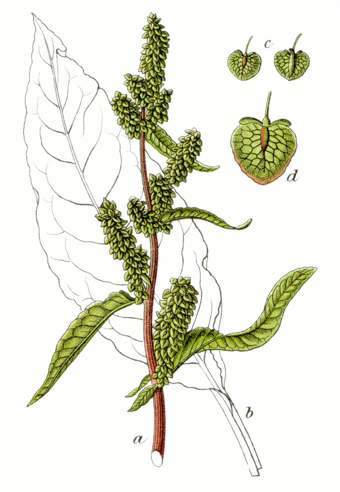 Rumex patientia L. Original Caption Echter Mönchsrhabarber, Rumex hybridus patientia